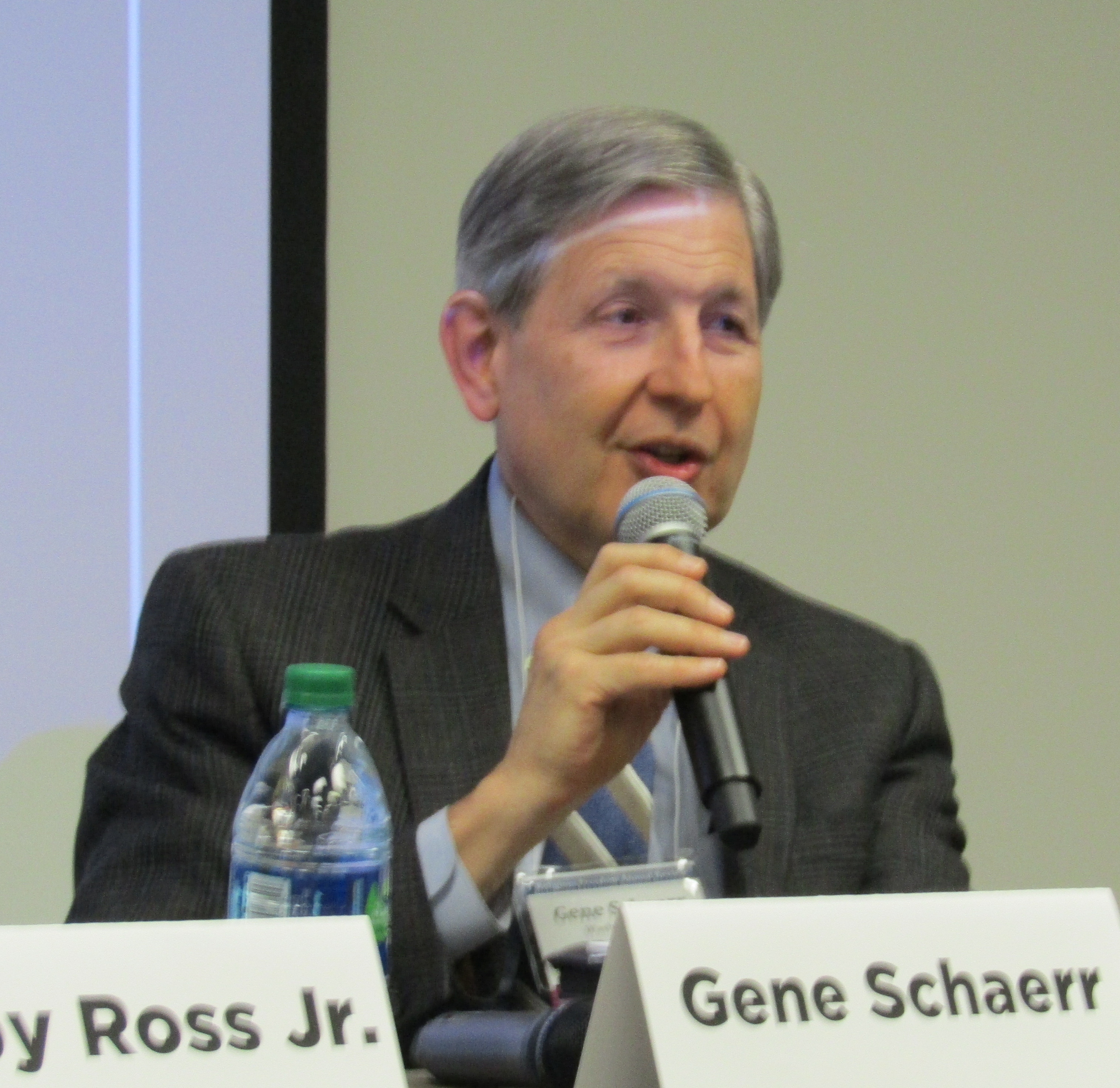 Gene Schaerr at the "Media Stream: Religious Freedom 101 for Journalists Part 2: Where Are We Headed" panel.